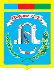 Goryachy Klyuch (Krasnodar kray), coat of arms (1990s)